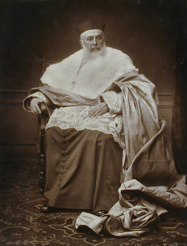 France, 1876-1884 Book: Galerie Contemporaine Volume, number, page: Volume 4 Photographs Woodburytype The Audrey and Sydney Irmas Collection (AC1992.229.47) Photography